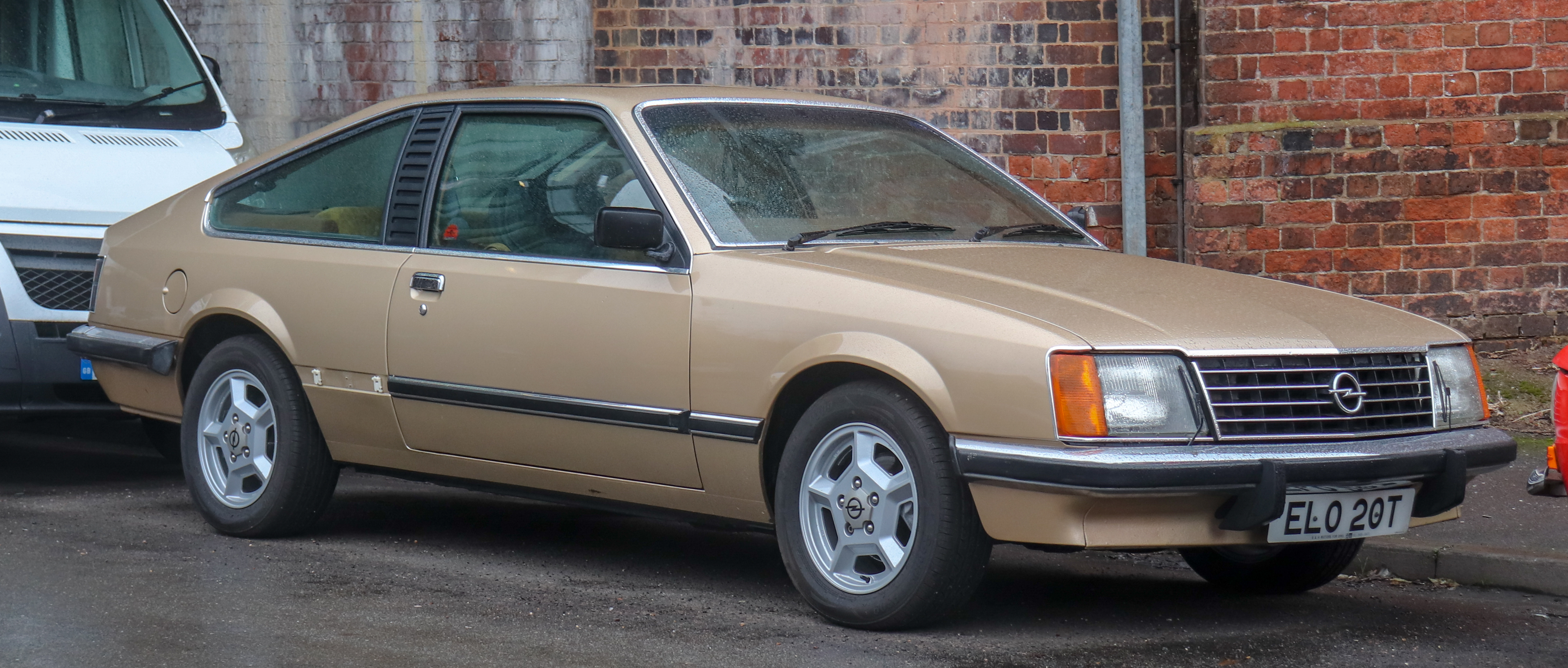 1979 Opel Monza Automatic 3.0 Taken in Leamington Spa